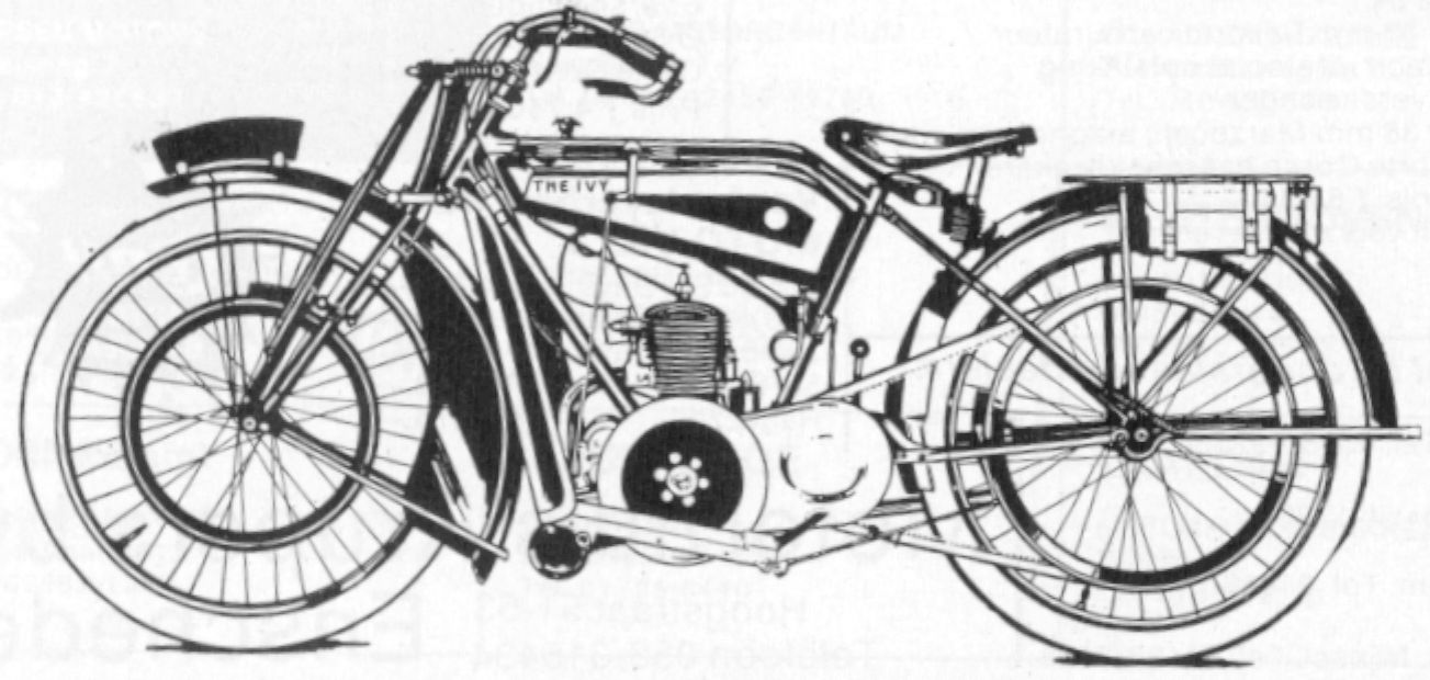 Advertising drawing of a Ivy 224 cc motorcycle.